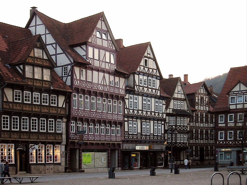 Fachwerkensemble at Kirchplatz in the city of Hann. Münden, Germany.